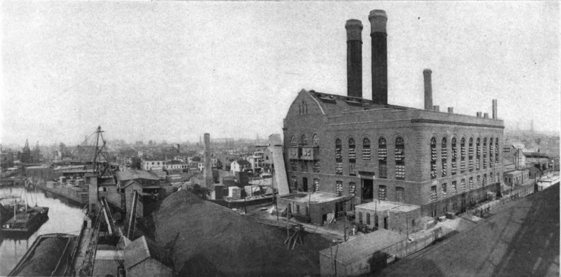 The Central Power Station of the Brooklyn Rapid Transit Company, which closed in the 1950s and became known as the Gowanus Batcave. These photos and diagrams come Electric Power Plants: A Description of a Number of Power Stations by Thomas Edward Murray (1910).